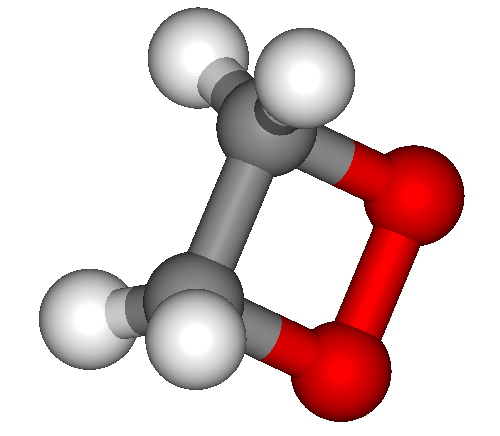 Chemical structure of 1,2-dioxetane